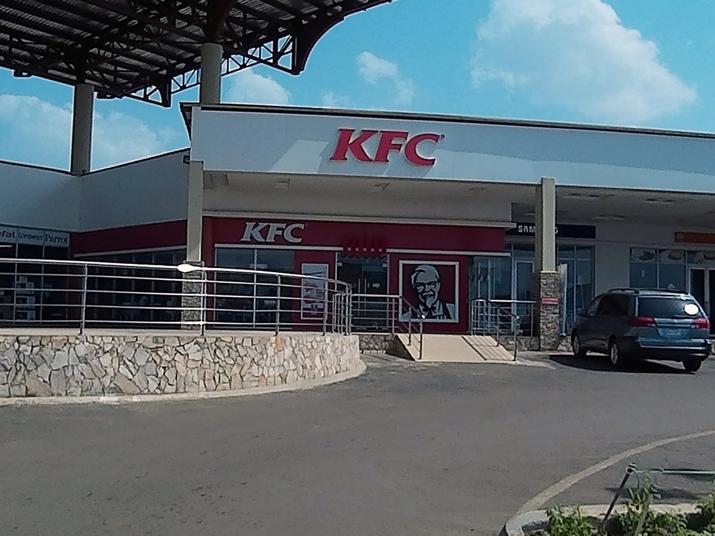 CAMERA